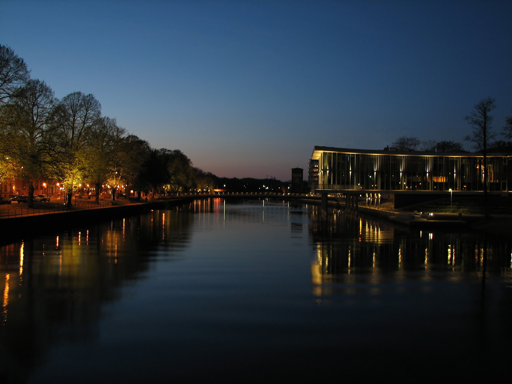 Night view from one of the bridges in Halmstad.